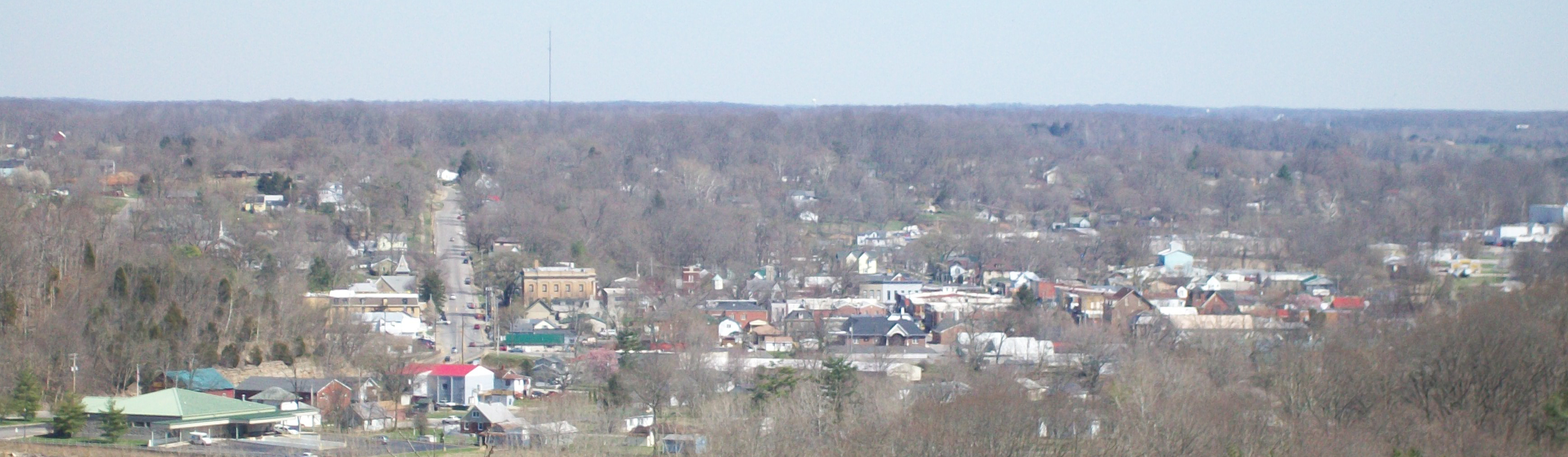 An image of downtown Corydon, Indiana, viewed from the Pilot Knob in the Hayswood Nature Reserve on the west side of the town.